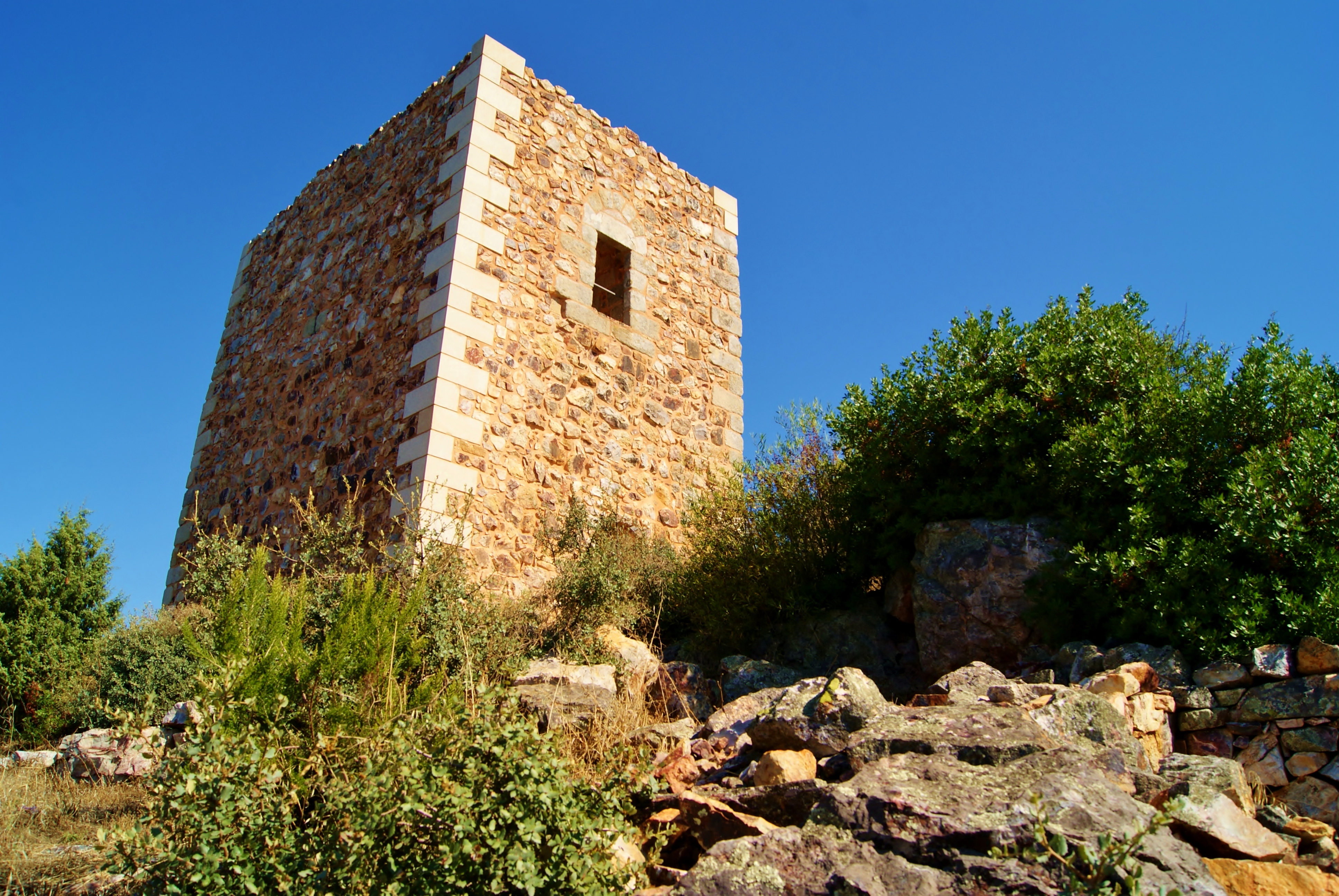 This monument is classified as Imóvel de Interesse Público. This file was uploaded for Wiki Loves Monuments in Portugal with the unique identifier 72989.